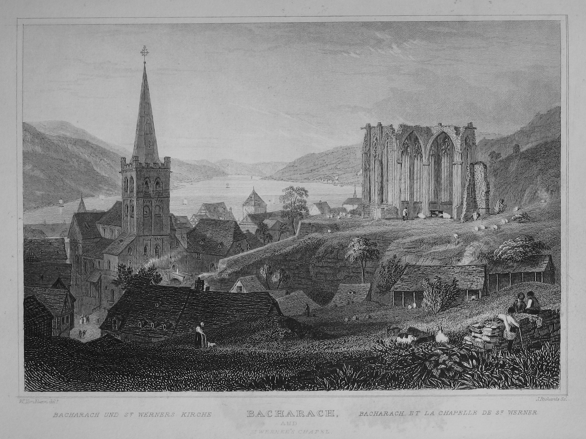 Steel engraving from "Views of the Rhine" by William Tombleson (around 1840): Village of Bacharach and ruin of the Werner Chapel